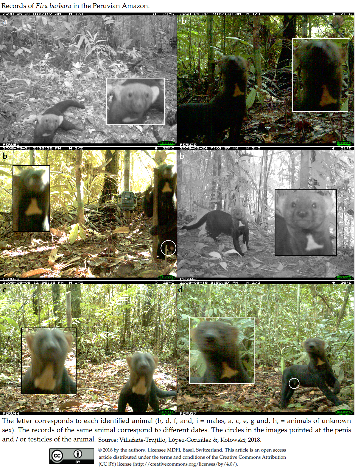 Tayras in the Peruvian Amazon.